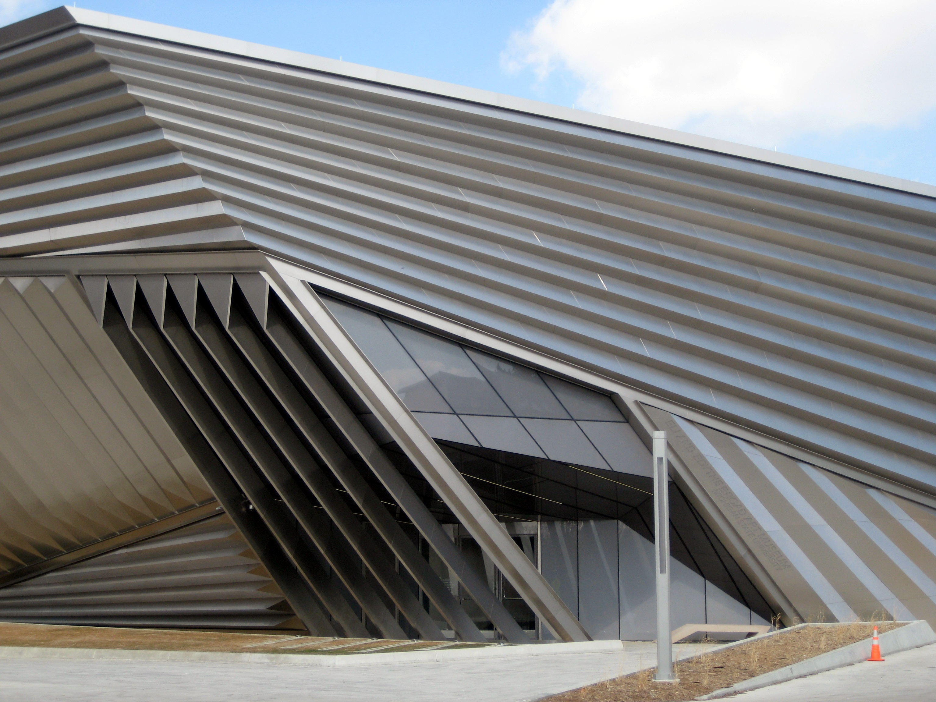 MSU Eli and Edythe Broad Art Museum -- Michigan State University, East Lansing, Michigan. View from East Circle Drive facing northeast